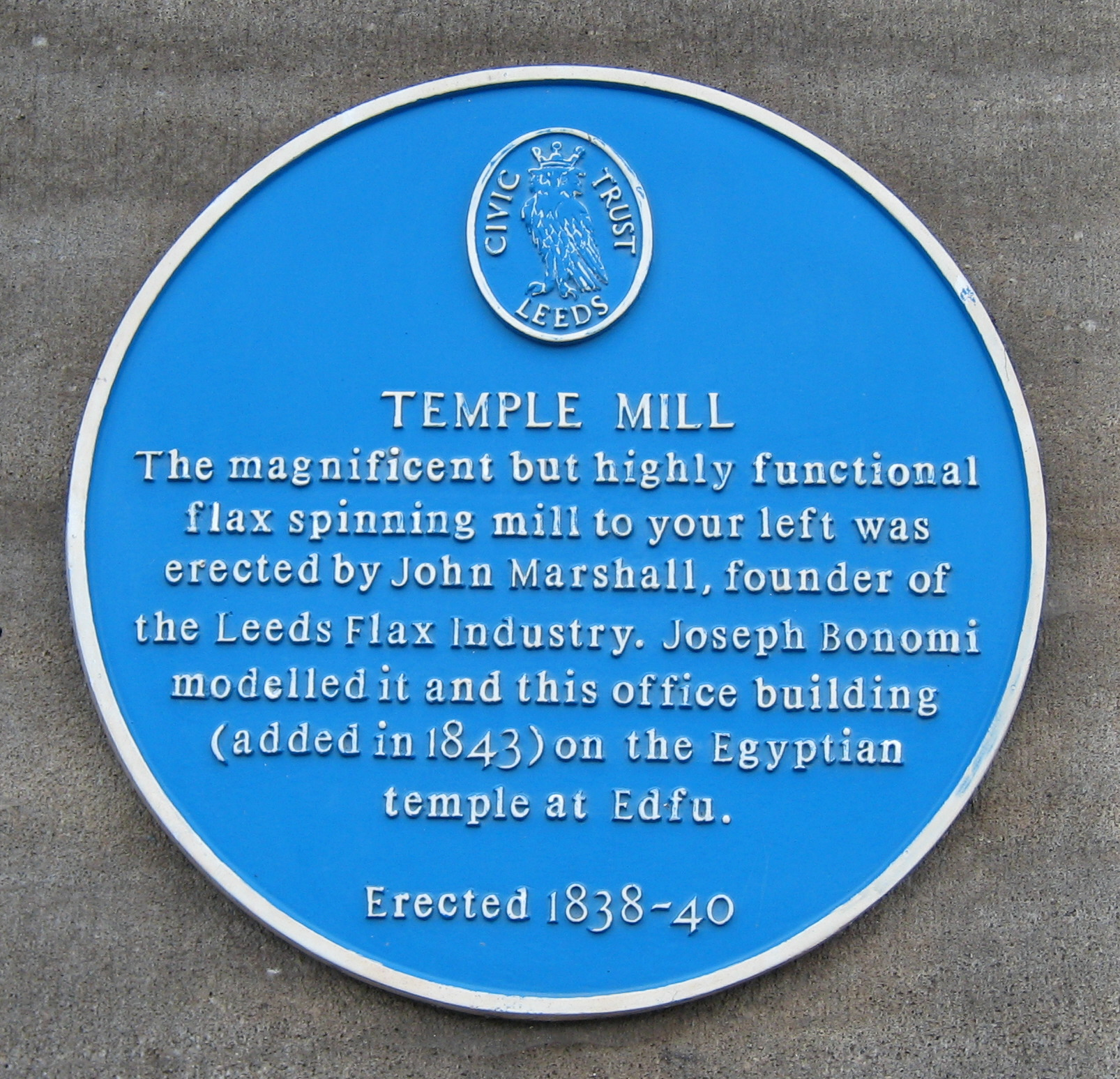 Blue plaque on the Temple Works building, Marshall Street, Leeds LS11.